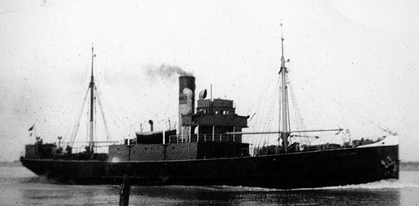 Felixstowe Built 1918 Yard. Hawthorn & Co Class of Ship. Cargo Operator. Great Eastern Railway/ LNER Route. Harwich – 1919-1951 Length. 215 ft. Gross Tonnage. 892 Speed. 13 Knots Status. Scrapped 22/11/1957 S.S. Felixstowe was built in 1918 and served as a tramp steamer until 1942, when requisitioned by the Admiralty and renamed H.M.S Colchester; Felixstowe was sold on the 18th October 1950 to the Limerick Steamship Company and renamed “Kylemore”. She was broken up in Rotterdam in 1957.